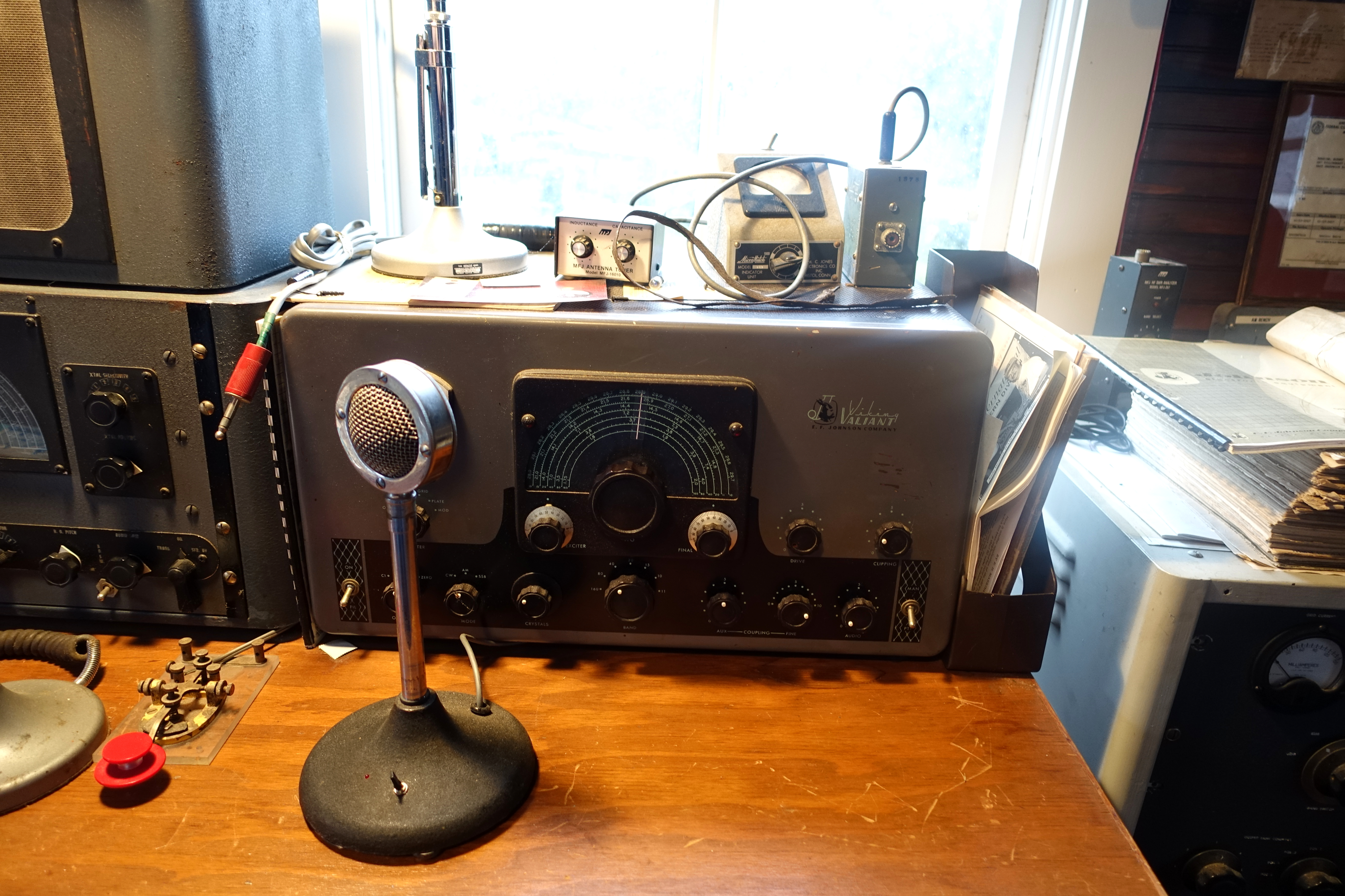 Viking Valiant, F. F. Johnson Company, in the Massie Wireless Station - New England Wireless & Steam Museum - East Greenwich, Rhode Island, USA.